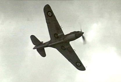 1941-10. Middle East. With the Australian Squadron who fly American built Tomahawk fighter aircraft. One of the Tomahawks in flight. (Negative by G. Silk).